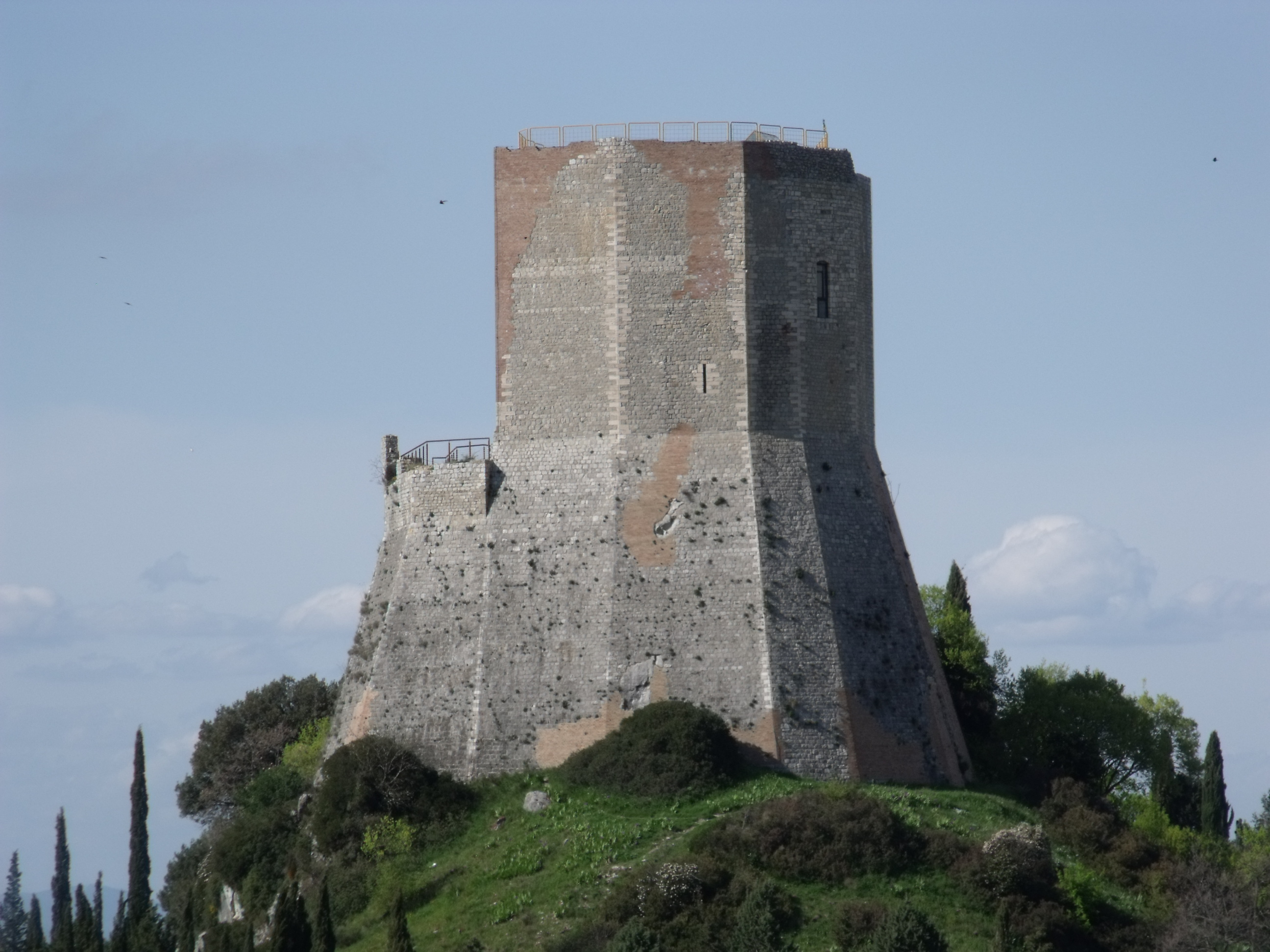 The Castle Rocca Tintinnano (also called Tentennano or Tintennano) in Rocca d’Orcia, Castiglione d’Orcia, Val d’Orcia, Province of Siena, Tuscany, Italy